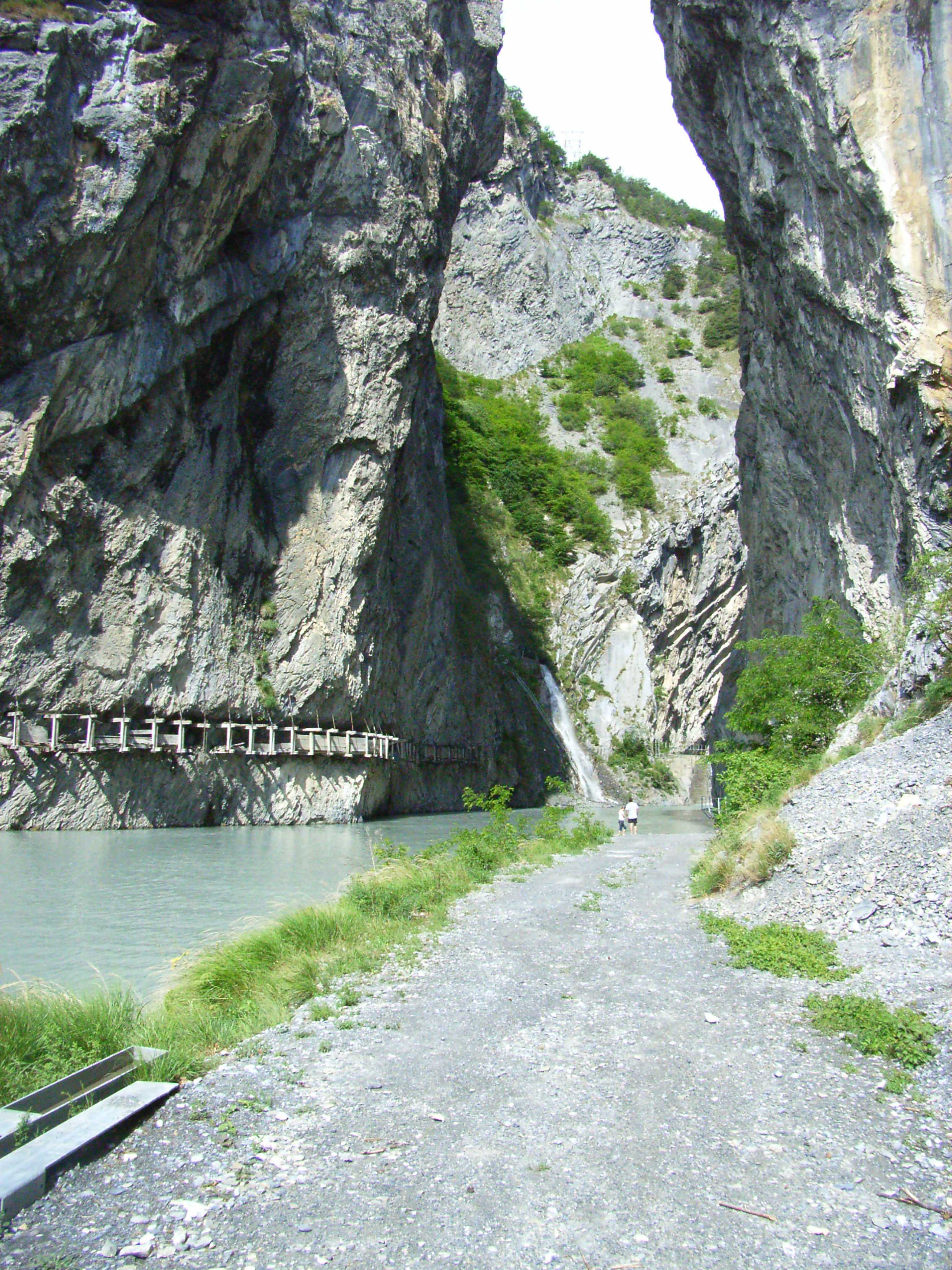 valley of the Lizerne, near Ardon (Switzerland, Valais)